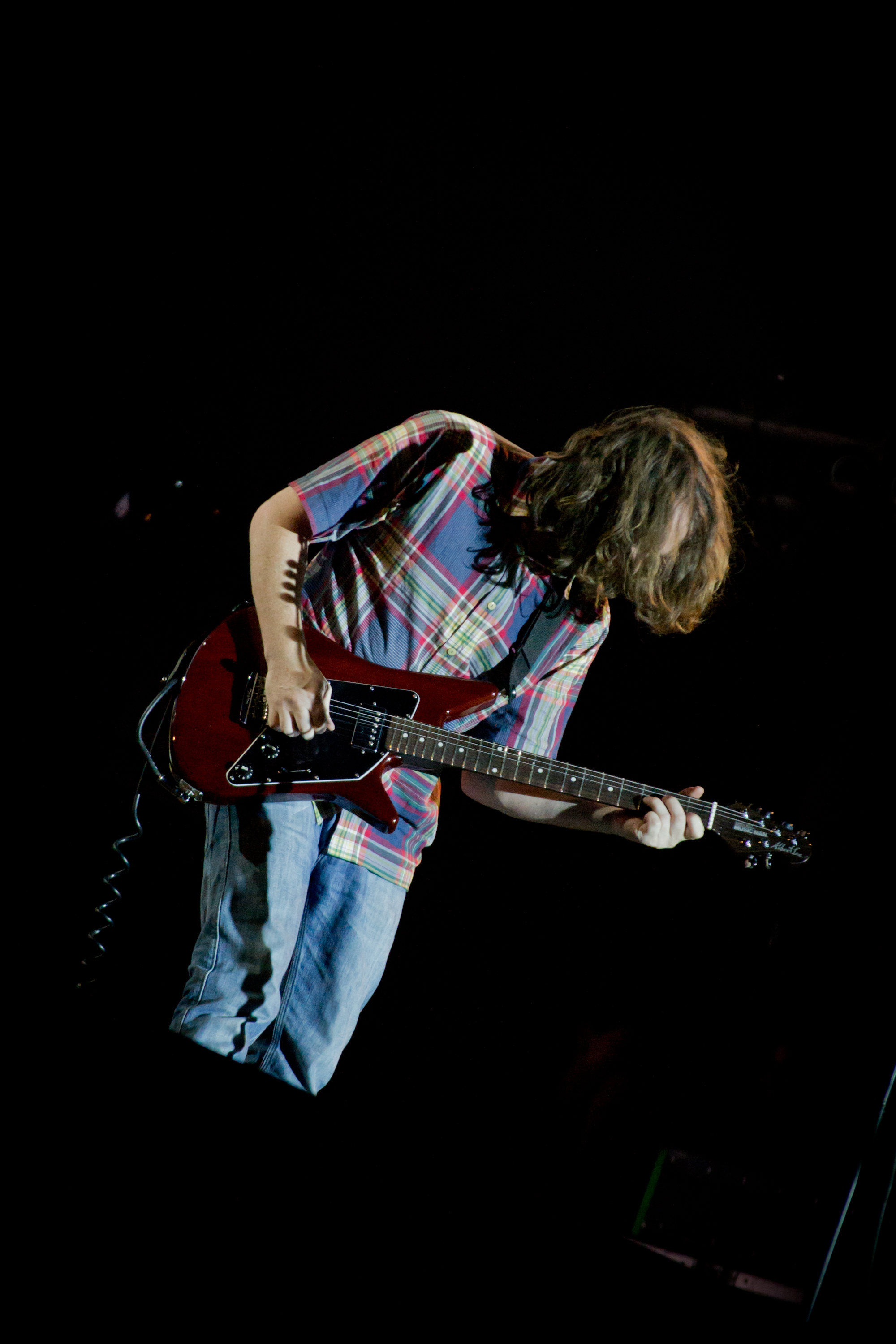 Incubus in Rock in Rio Madrid 2012.